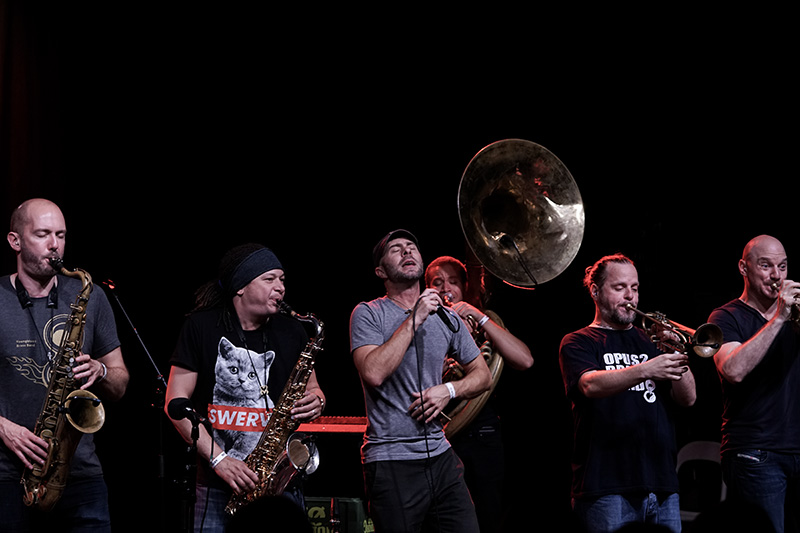 Youngblood Brass Band in Aarhus, Denmark 2017